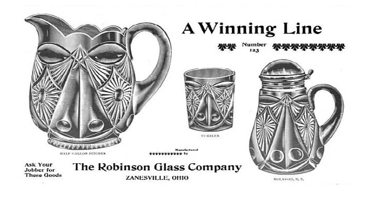 Advertisement by Robinson Glass Company of Zanesville, Ohio on page 18 of March 1896 edition of Glass and Pottery World